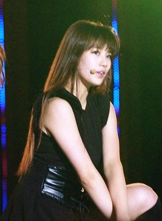 Suzy at Hallyu Dream Concert, 3 October 2011